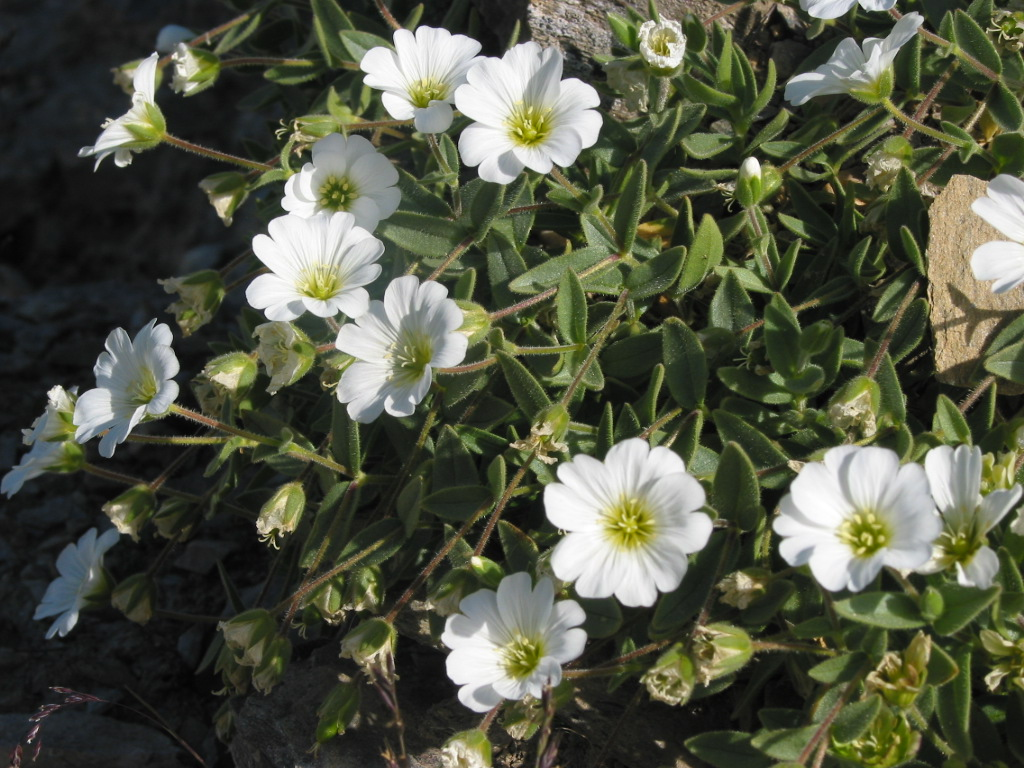 Cerastium latifolium